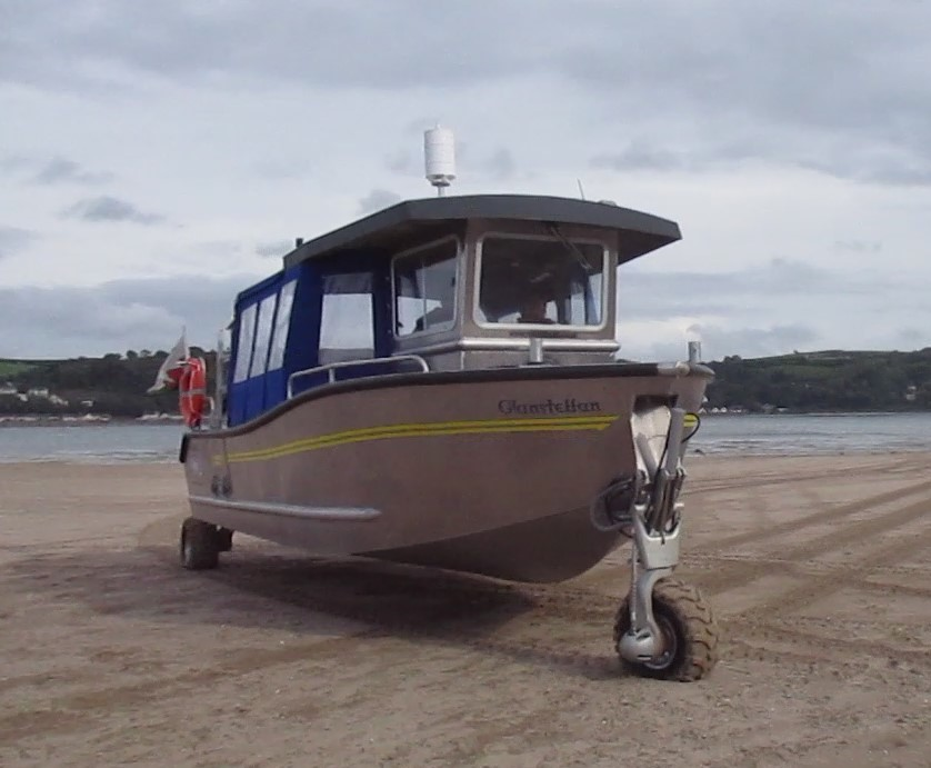 amphibious ferry at ferryside Camarthen Bay ferry